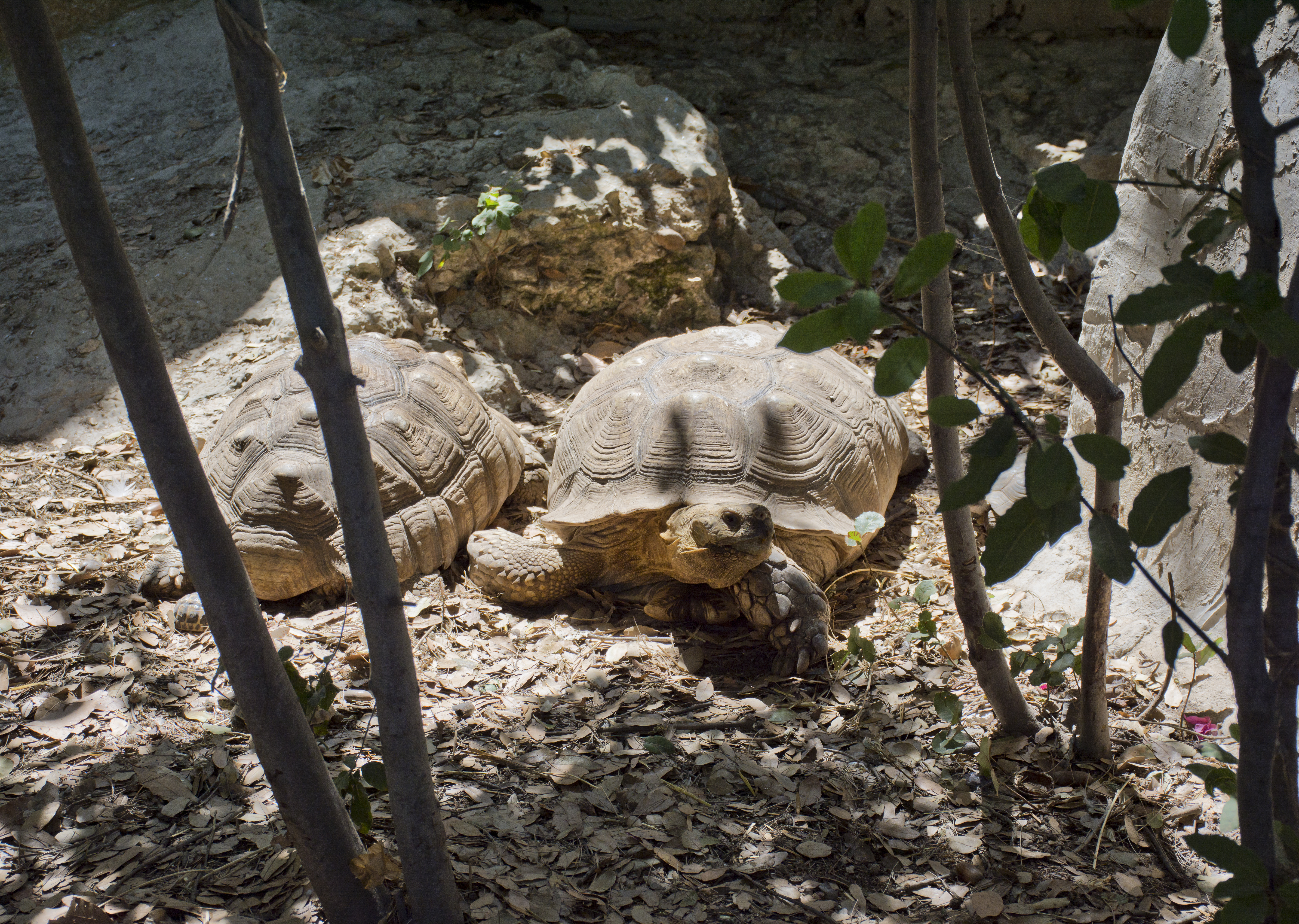 Haifa Educational Zoo, Haifa, Israel